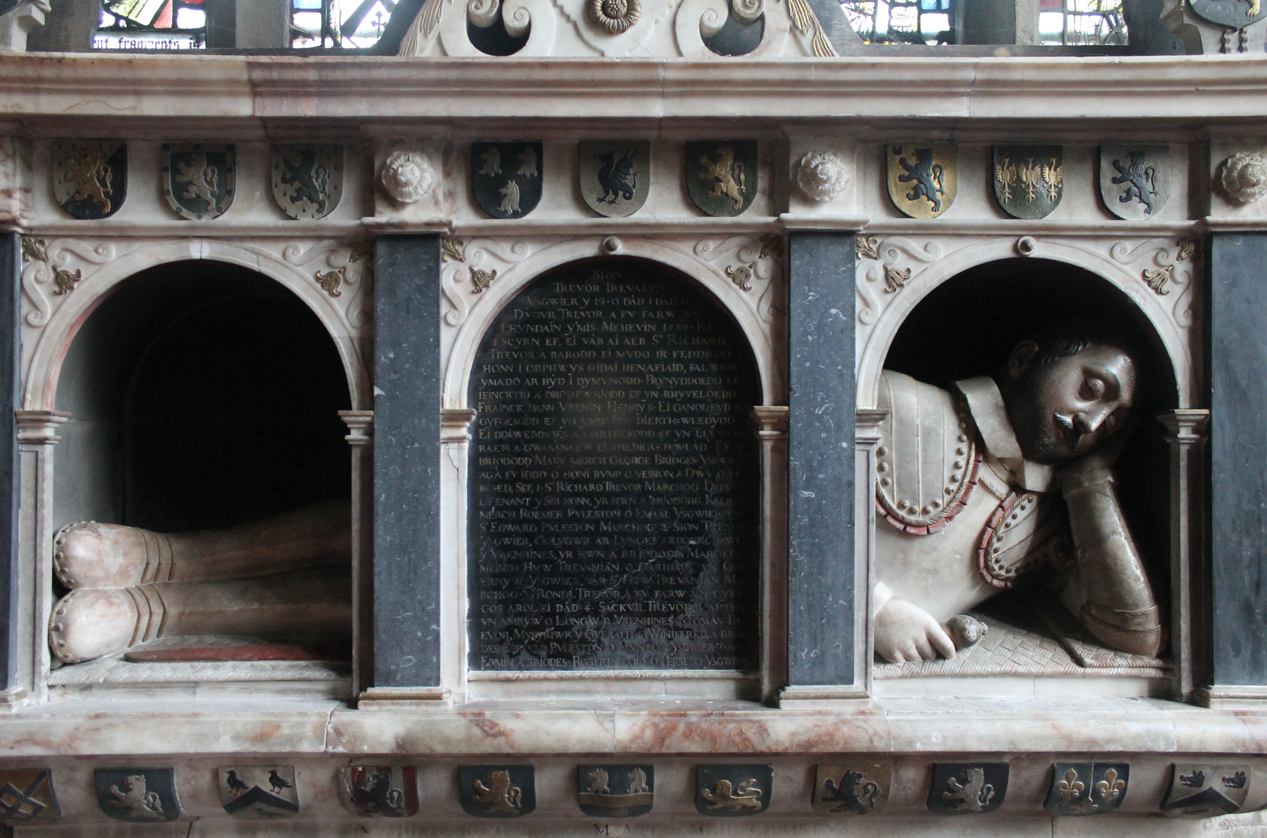 Tomb of Sion Trevor (note spelling!) at All Saints' Church, Gresford, North Wales. His name (Sion) sometimes Anglicised to John. Died 1589. The description is monolingual: Welsh.